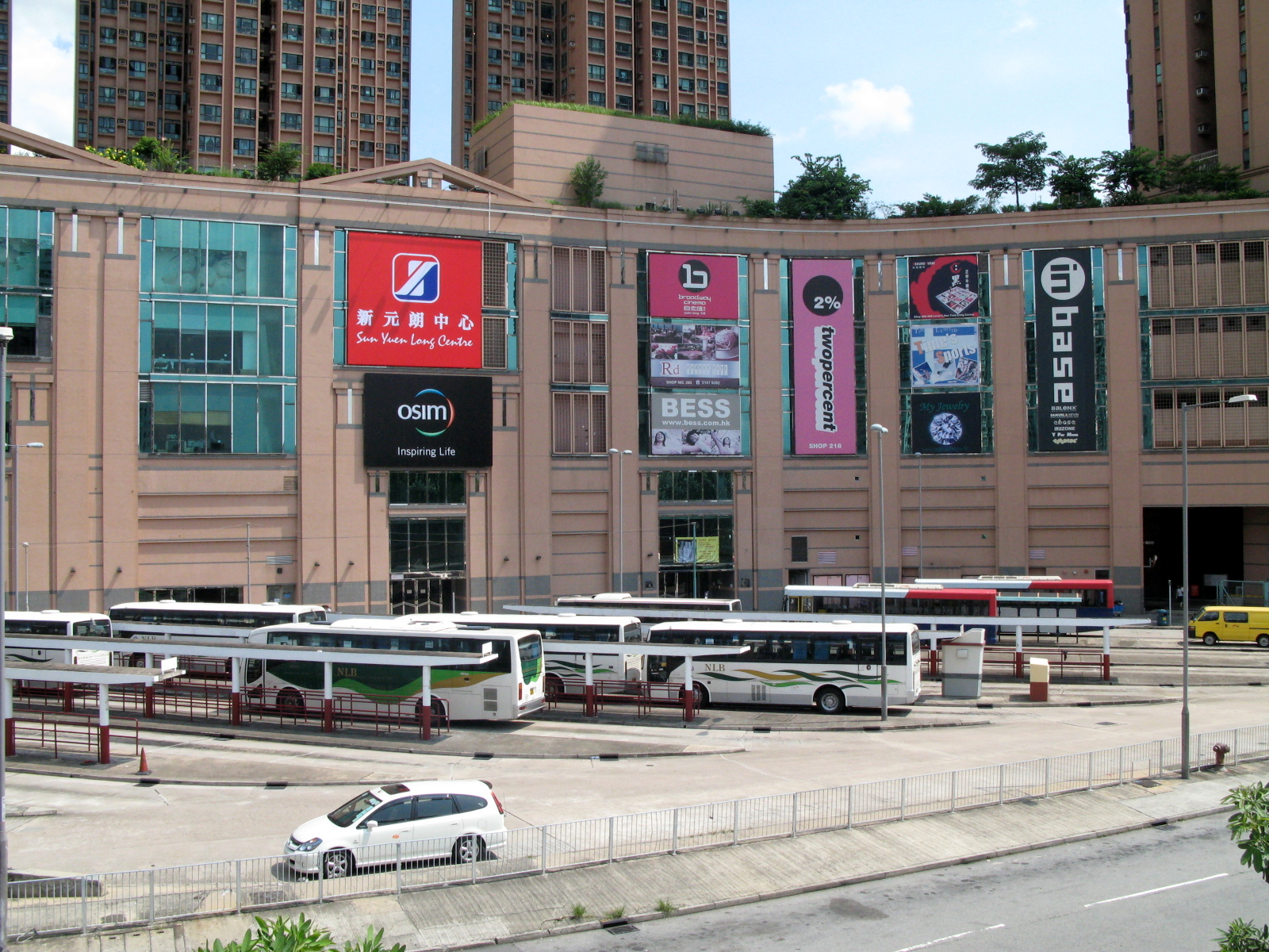 HK Yuen Long Sun Yuen Long Centre